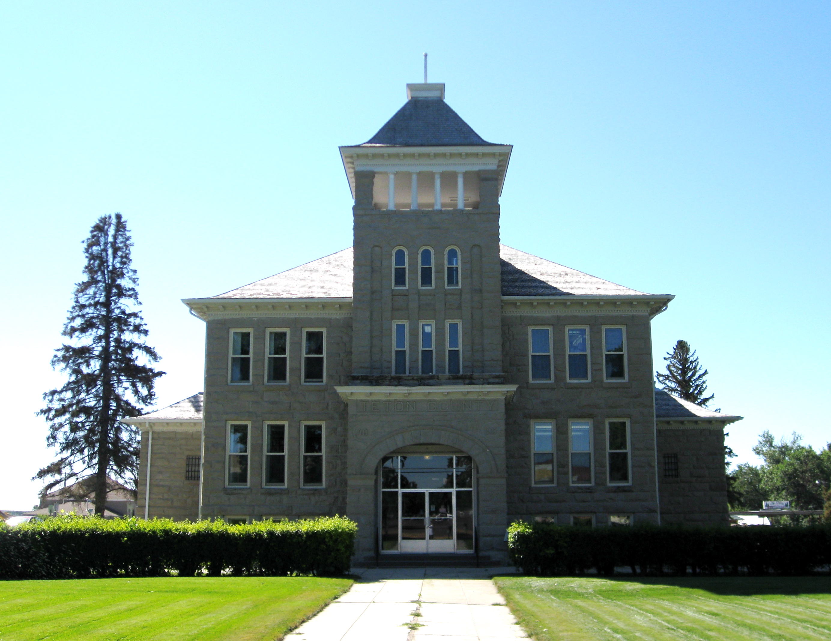 Teton County Courthouse, Choteau, Montana, United States. Finished in 1906, and built of local sandstone, it was designed by Joseph Gibson and George Stanley of Kalispell, Montana.